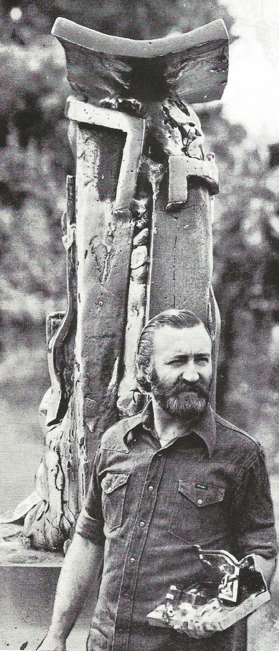 Roberto Tirelli in Israel